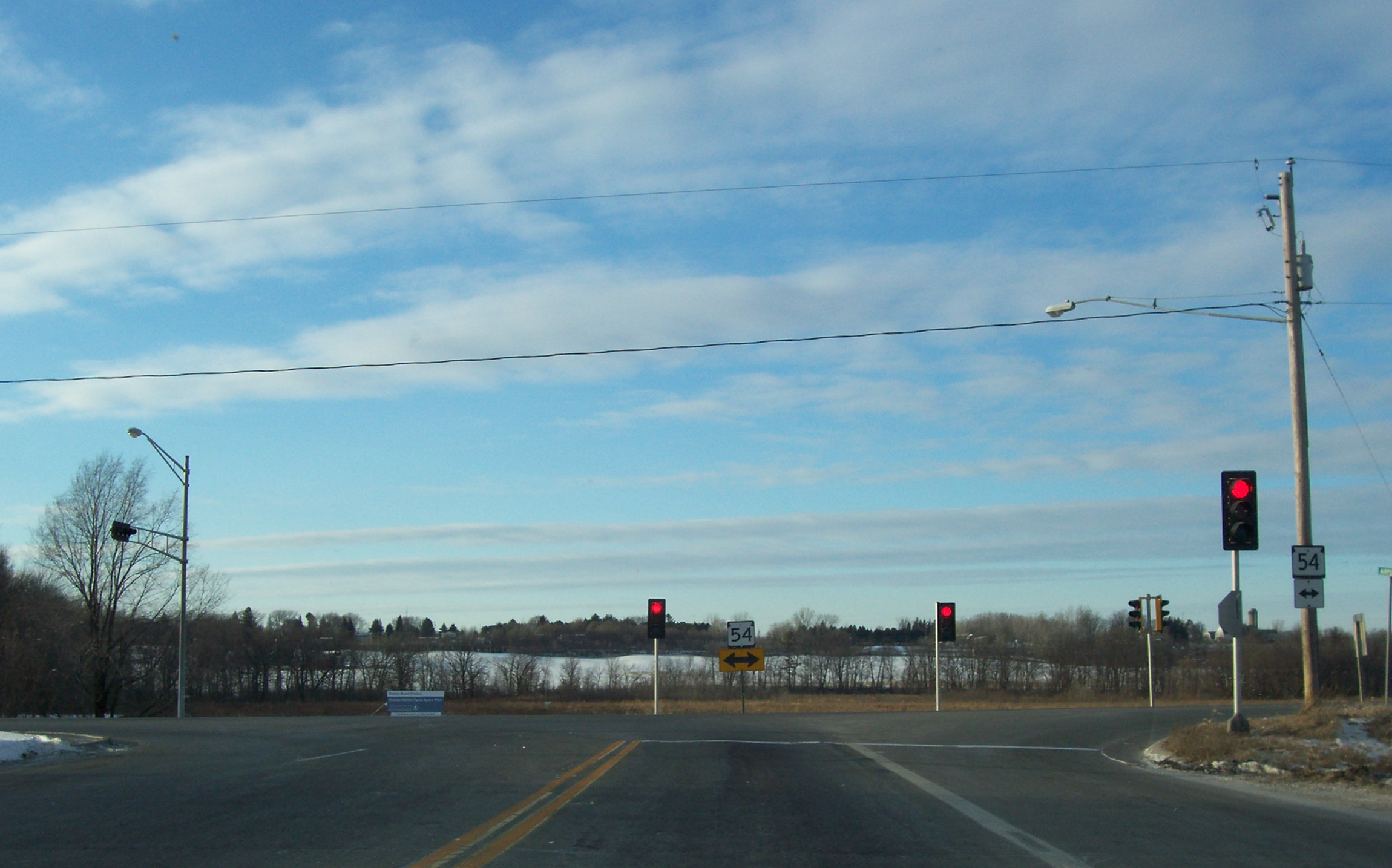 Category:Images of Wisconsin highways (Original text: Looking at west at the west terminus of Wisconsin Highway 172 at Wisconsin Highway 54 in Hobart, Wisconsin, USA. Cropped from original.)